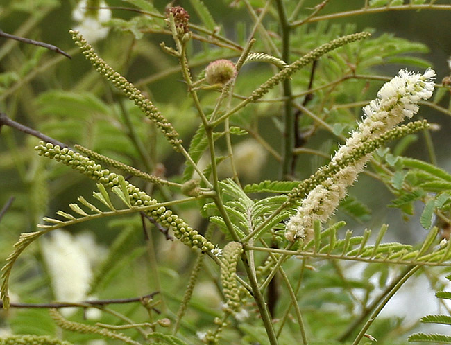 Khair Acacia catechu in Hyderabad , India.